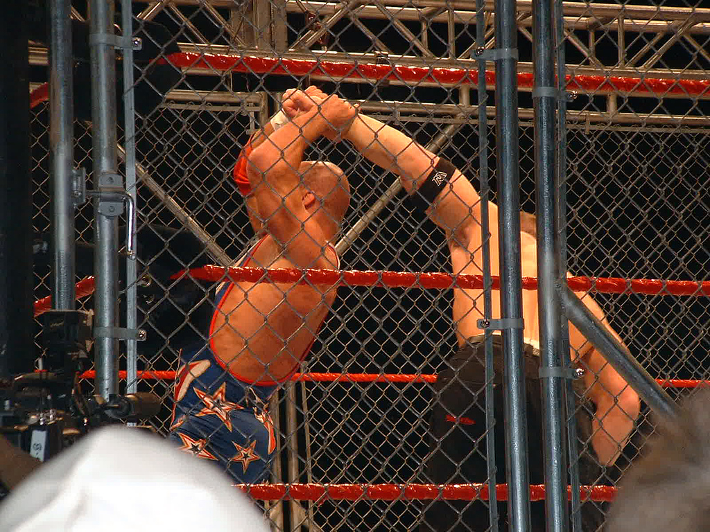 Kurt Angle and John Cena face off in a steel cage match at a WWE house show in the MEN Arena in Manchester, United Kingdom on 17 November, 2005.